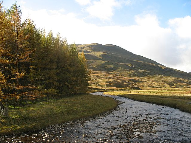 River Almond The river by Larichlaura. The small larch wood was probably planted to supply the estate with timber.